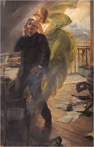 Albert Maignan’s painting of “Green Muse” (1895) shows a poet succumbing to the green fairy. Musée de Picardie, Amiens. Picard: « Èl verte Muse » pinture à Albert Maignan, 1895. Heule édseur toéle. Musée d'Picardie, Anmien.